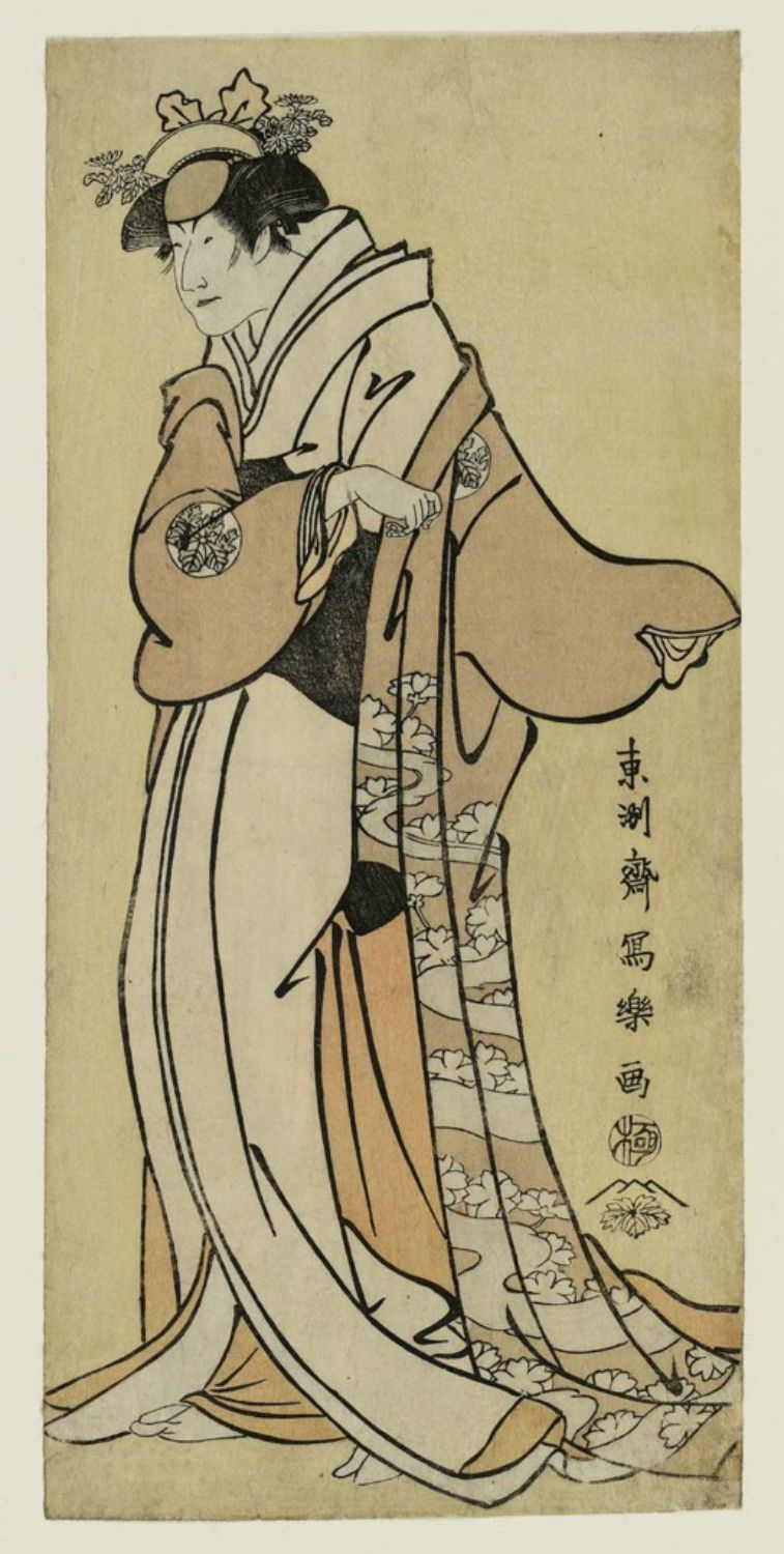 Ukiyo-e print by Tōshūsai Sharaku of Nakayama Tomisaburō as Tsukuba Gozen, wife of Yoshioki